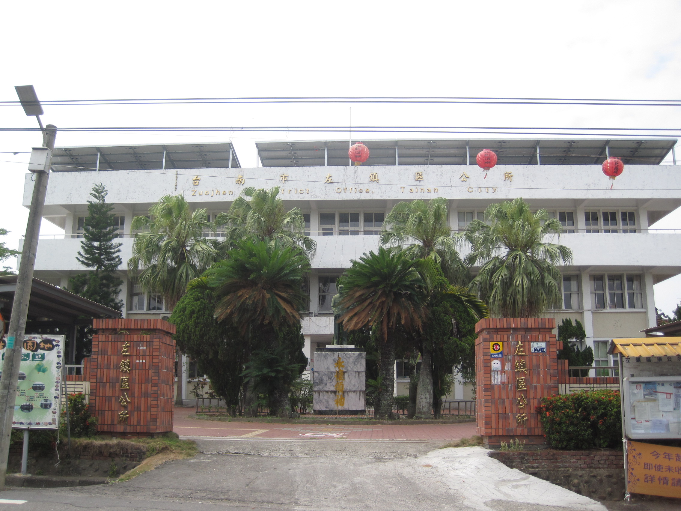 Zuojhen District Office, Zuojhen District, Tainan City, Taiwan